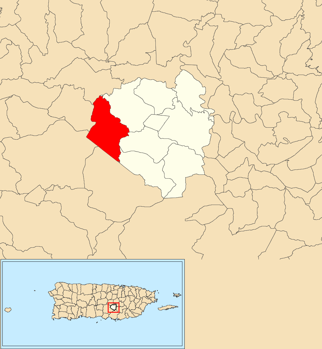 Asomante, Aibonito, Puerto Rico locator map